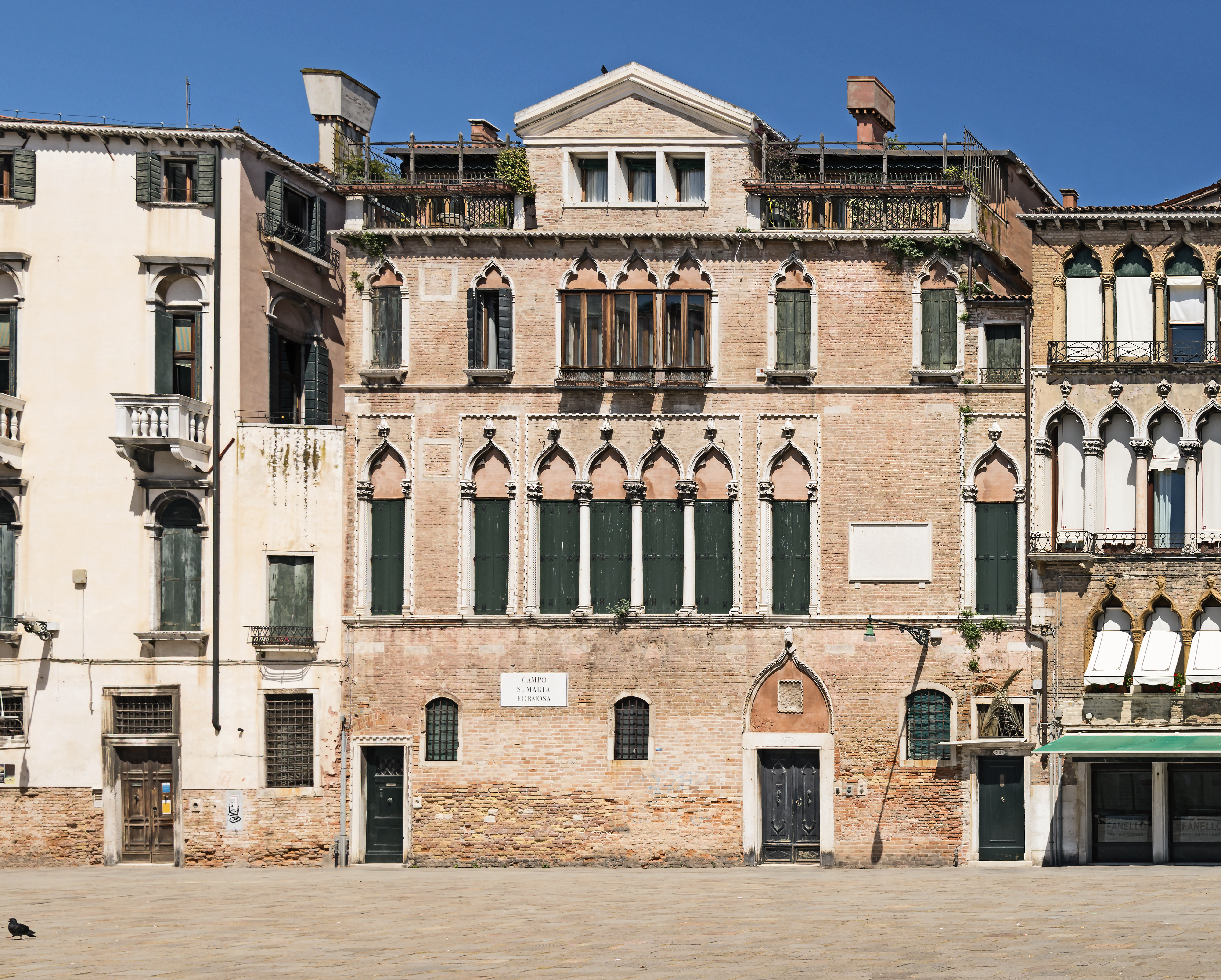 Palazzi Donà - The central palace (3 palaces complex) - Campo Santa Maria Formosa, Venice.